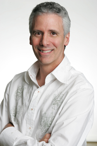 This is a photo of Jeffrey Scott Edell